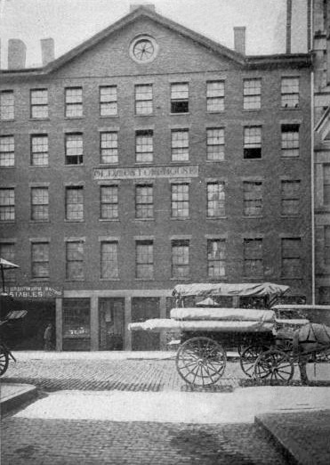 Category:Custom House (built 1810) on Custom House Street, in Boston, Massachusetts. Nathaniel Hawthorne worked here ca.1839-1840.